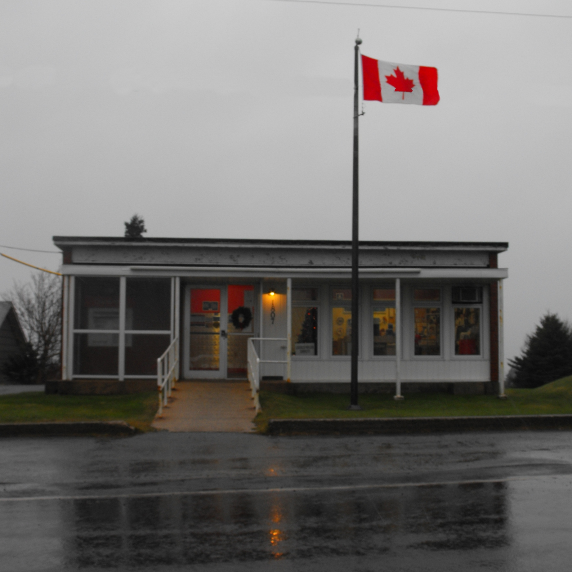 Post office in Pointe d'Eglise (Church Point), Digby County, NS